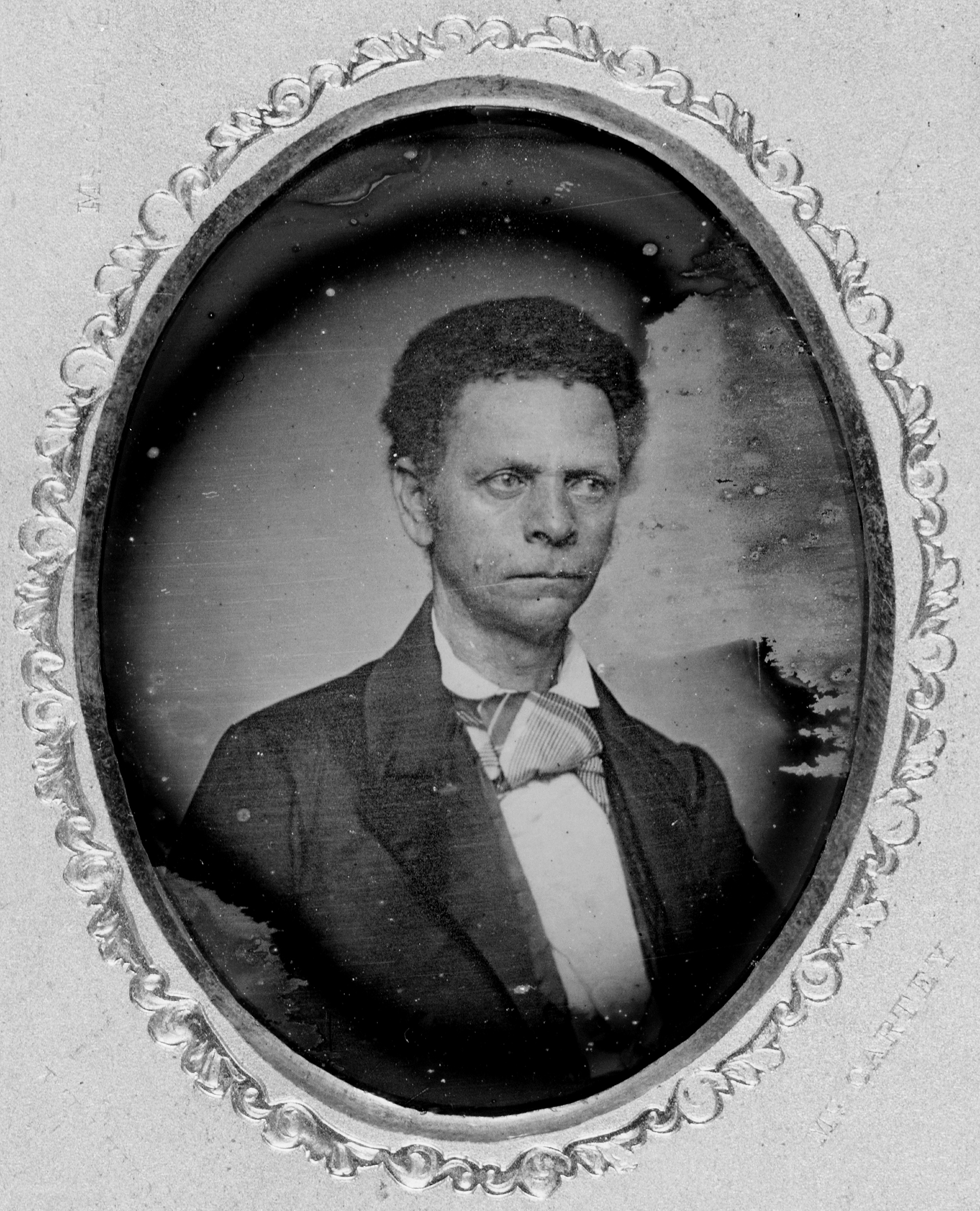 Joseph Jenkins Roberts, first and seventh president of Liberia